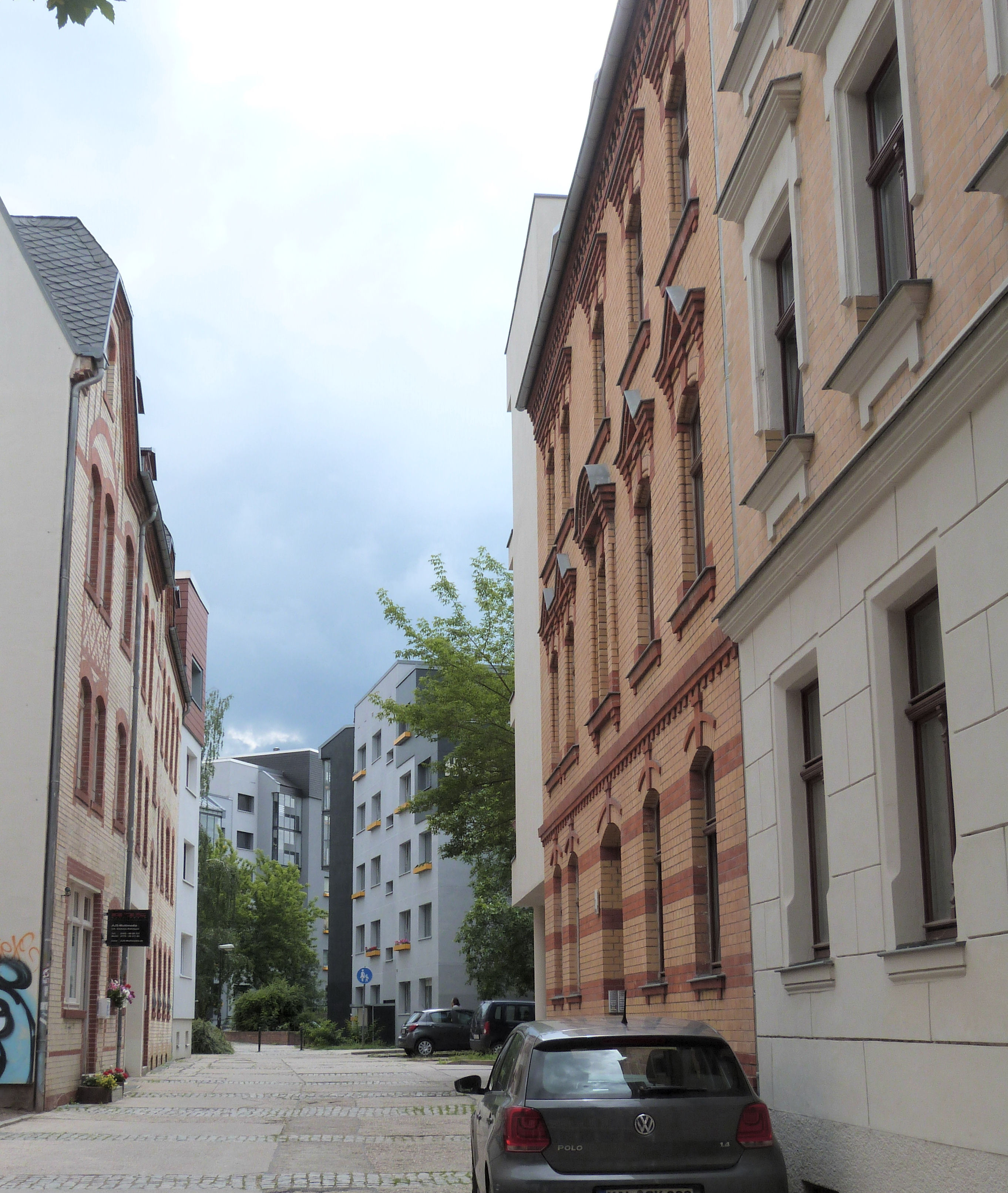 Street Zenkerstrasse, view from the Alter Markt (Old market), Halle (Saale)